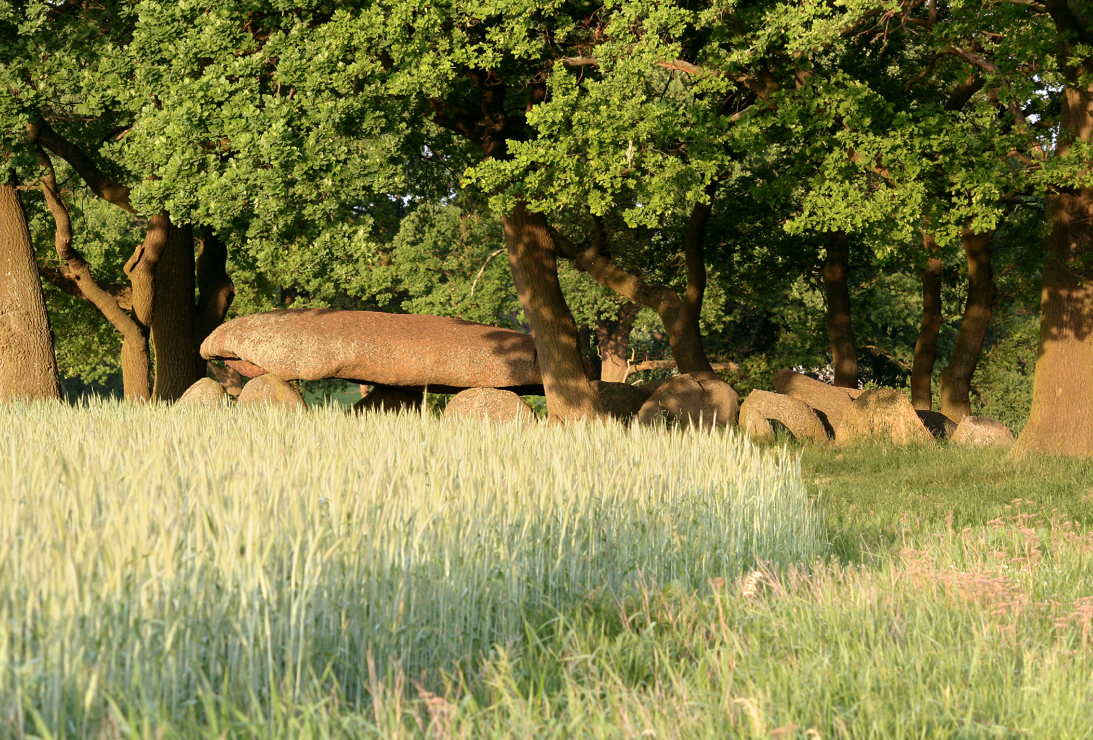 Dolmen in Stöckheim (Rohrberg), Altmark